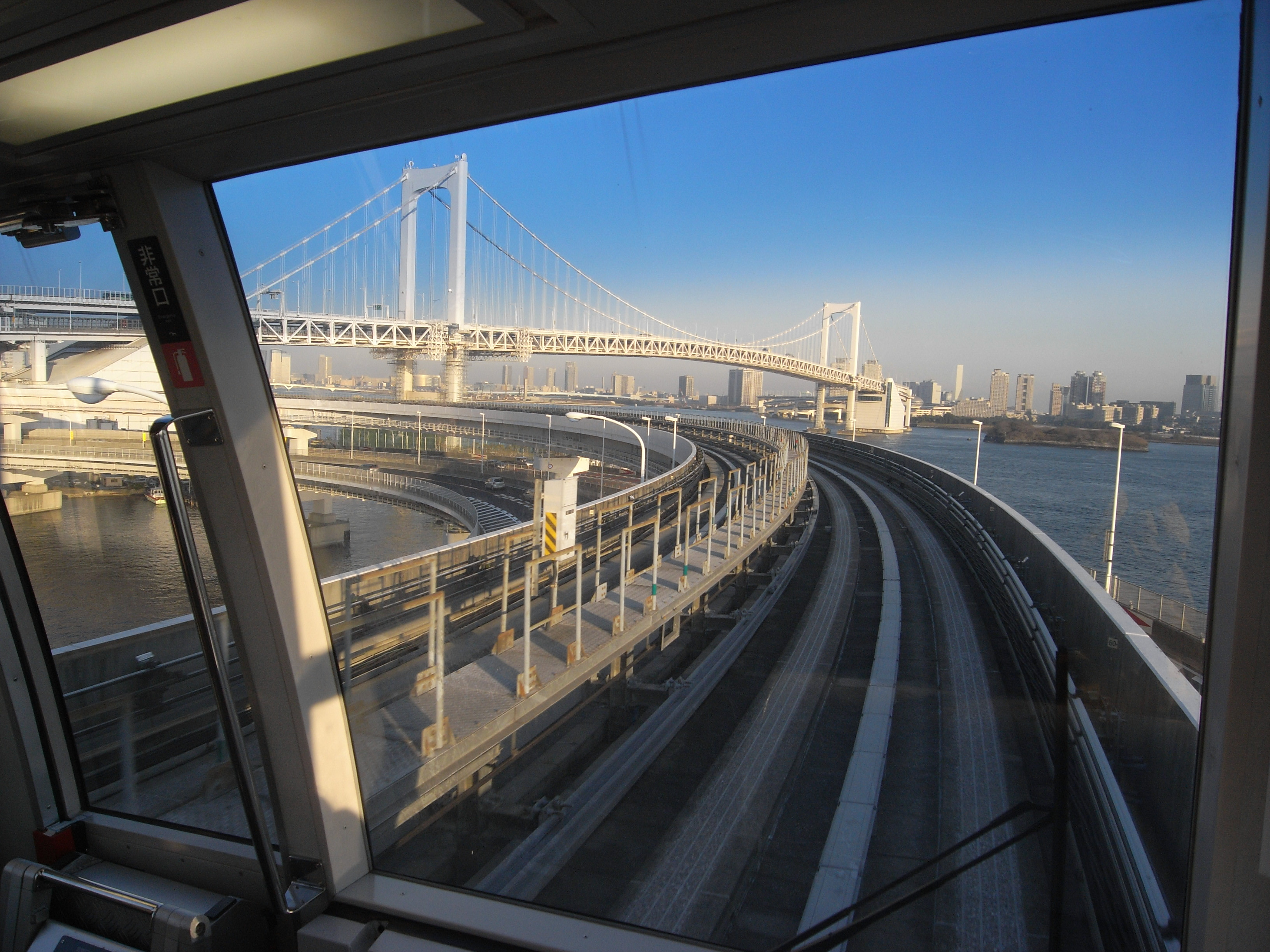 riding the New Transit Yurikamome in Tokyo, is a view to the tracks, Tokyo water front and bridge